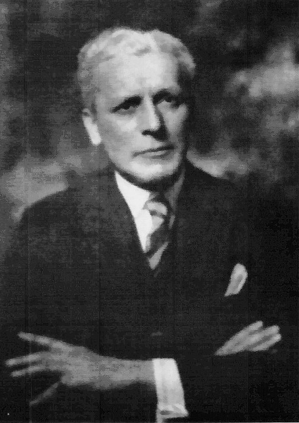 Karl Oscar Bertling